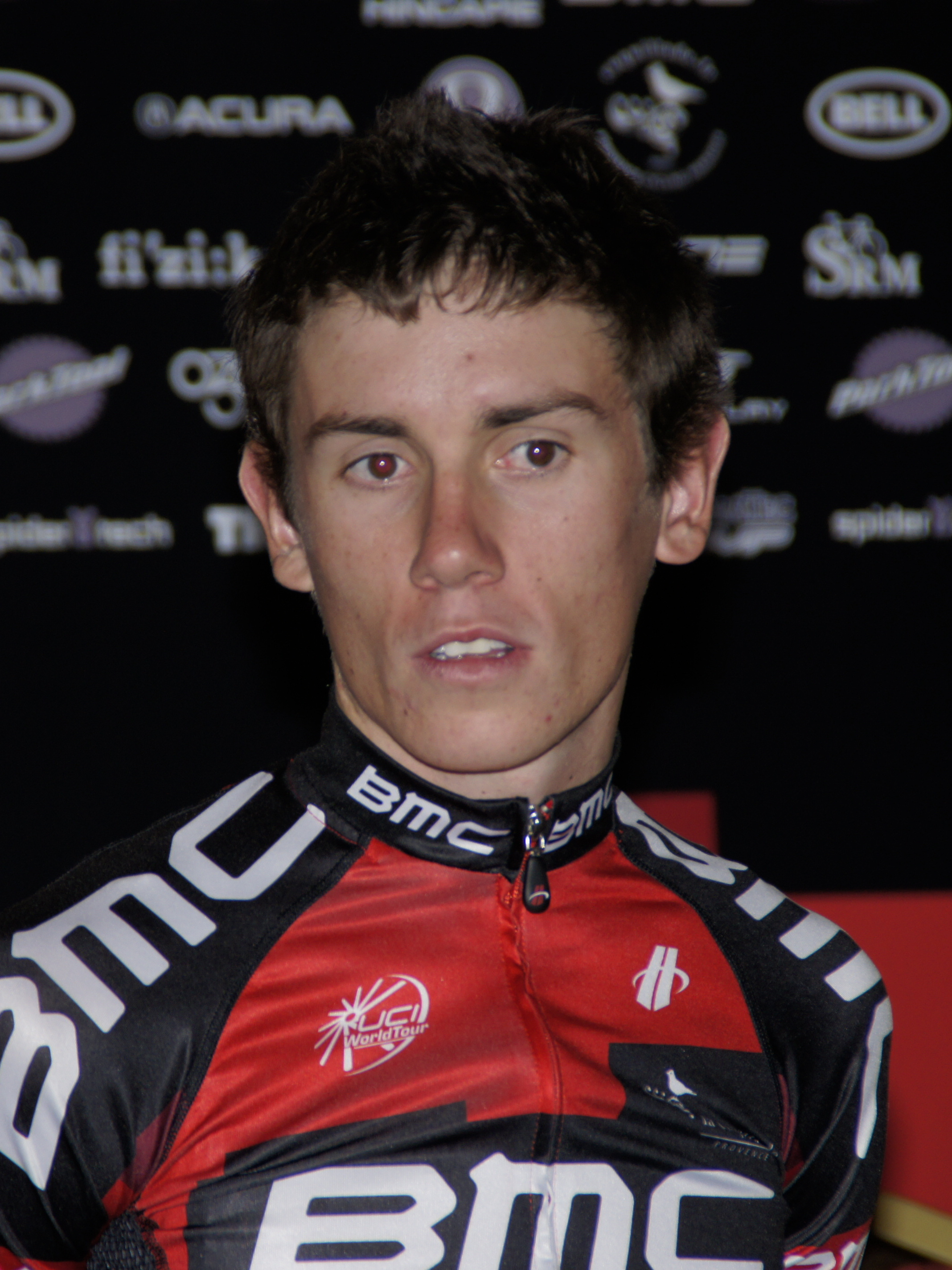 Timothy Roe during the presentation of the BMC Pro Cycling team in Denia, Spain